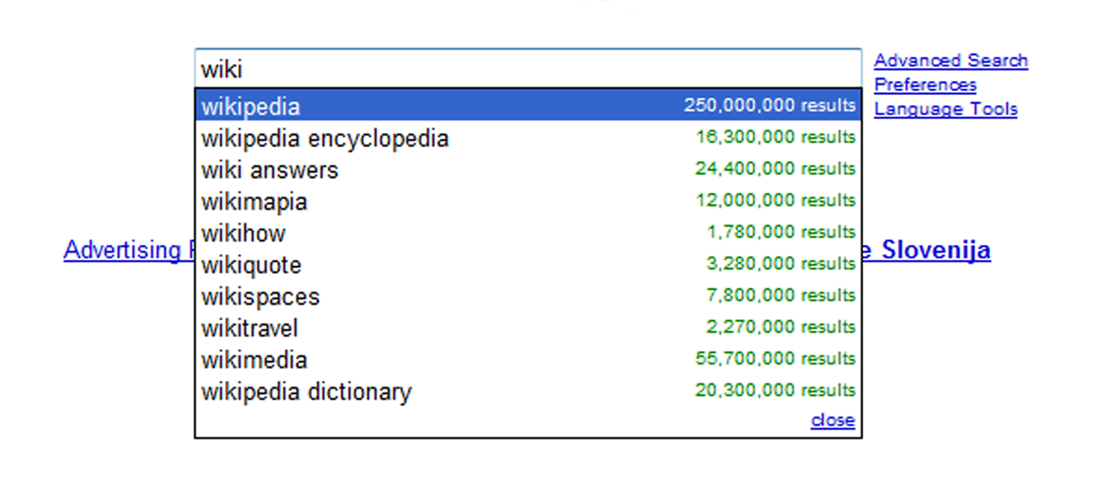 Screenshot of Google Suggest function in Google search.